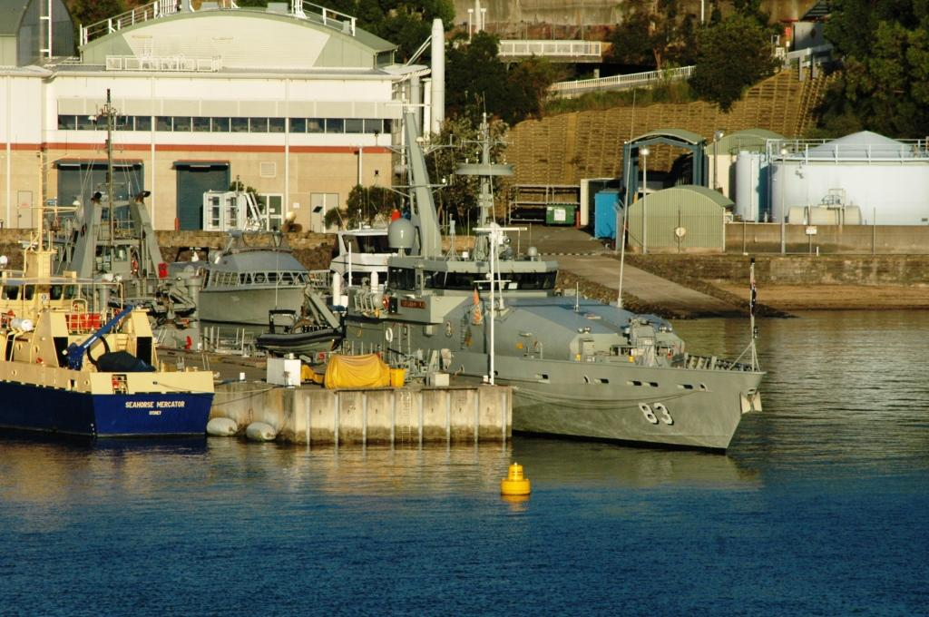 HMAS Armidale at HMAS Waterhen. HMAS ARMIDALE [II] is normally based at HMAS Coonawarra in Darwin